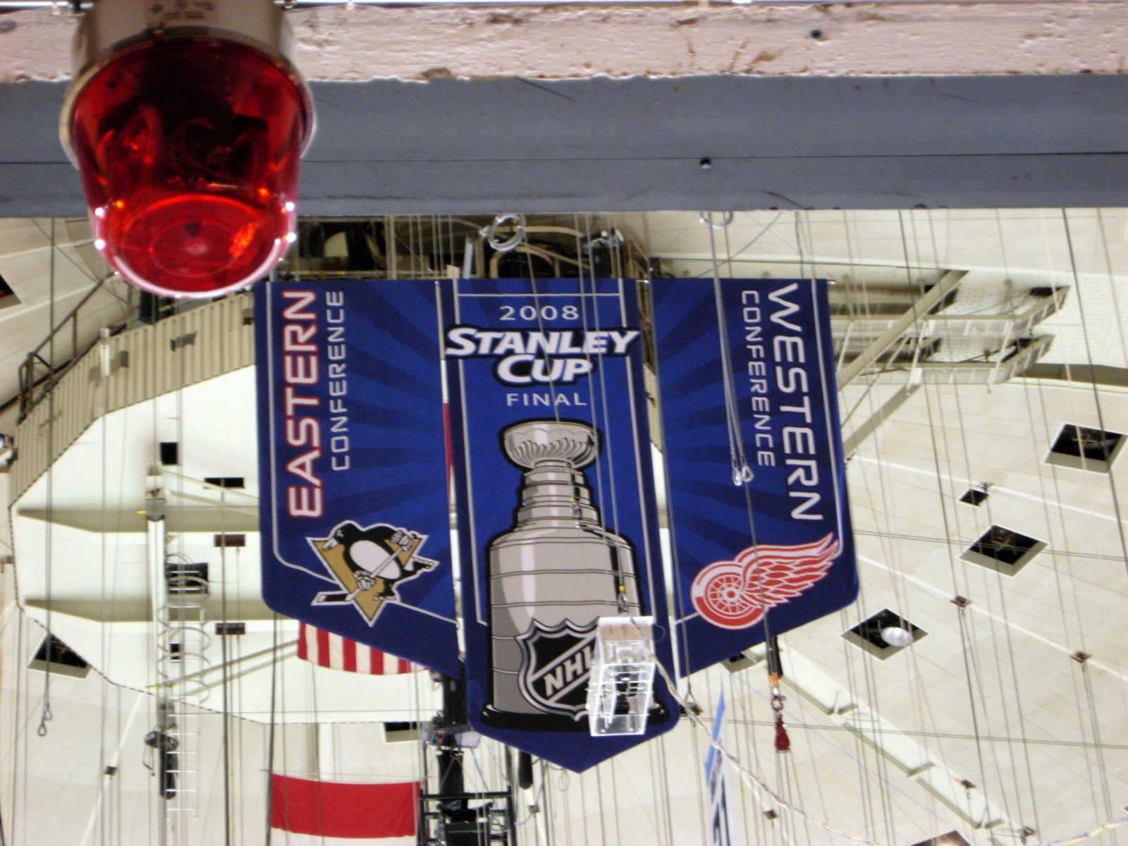 2008 Stanley Cup Final in Pittsburgh